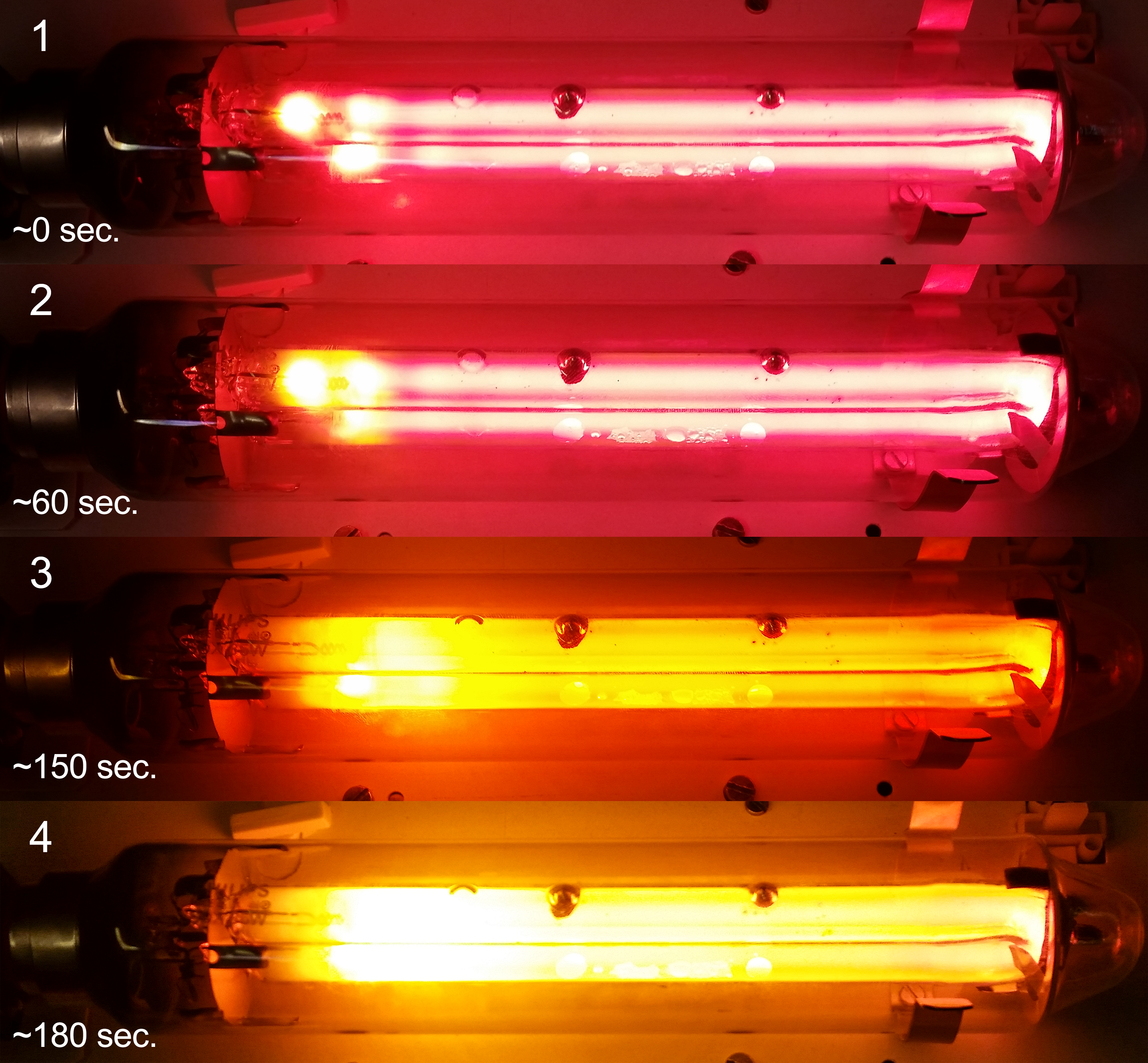 Warm-up sequence of a Philips SOX 35W U-shaped low-pressure sodium-vapor lamp: 1., 2. As the lamp's turned on, the Penning mixture starts glowing in a faint pink color (strongly resembling the light of the neon signs). 3., 4. As the sodium evaporates, gradually the whole lamp gives a bright, yellowish, monochromatic light. The excess amount of metallic sodium is also visible in strategically placed dents on both the top and the bottom of the tube (and also the wall of the bottom tube).